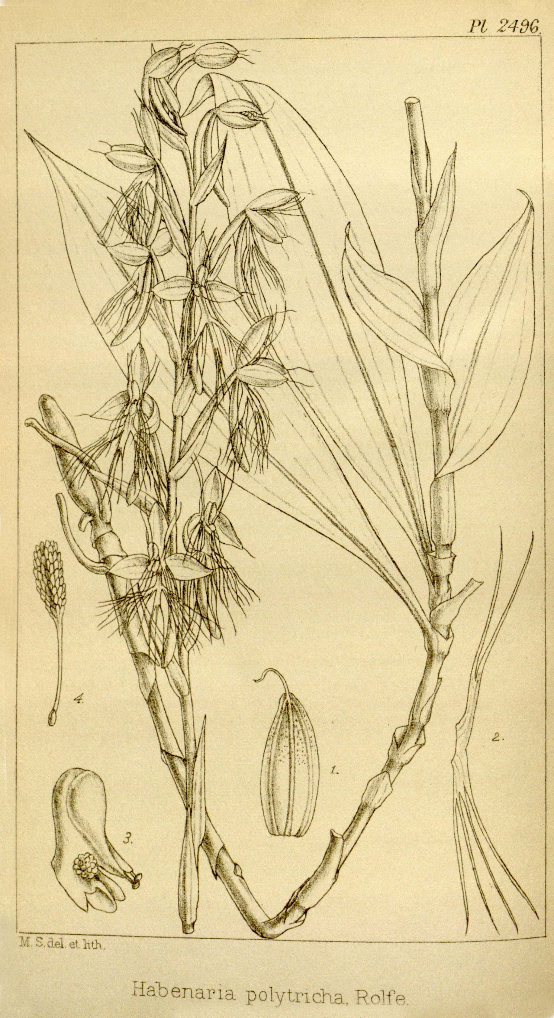 Illustration of Habenaria polytricha